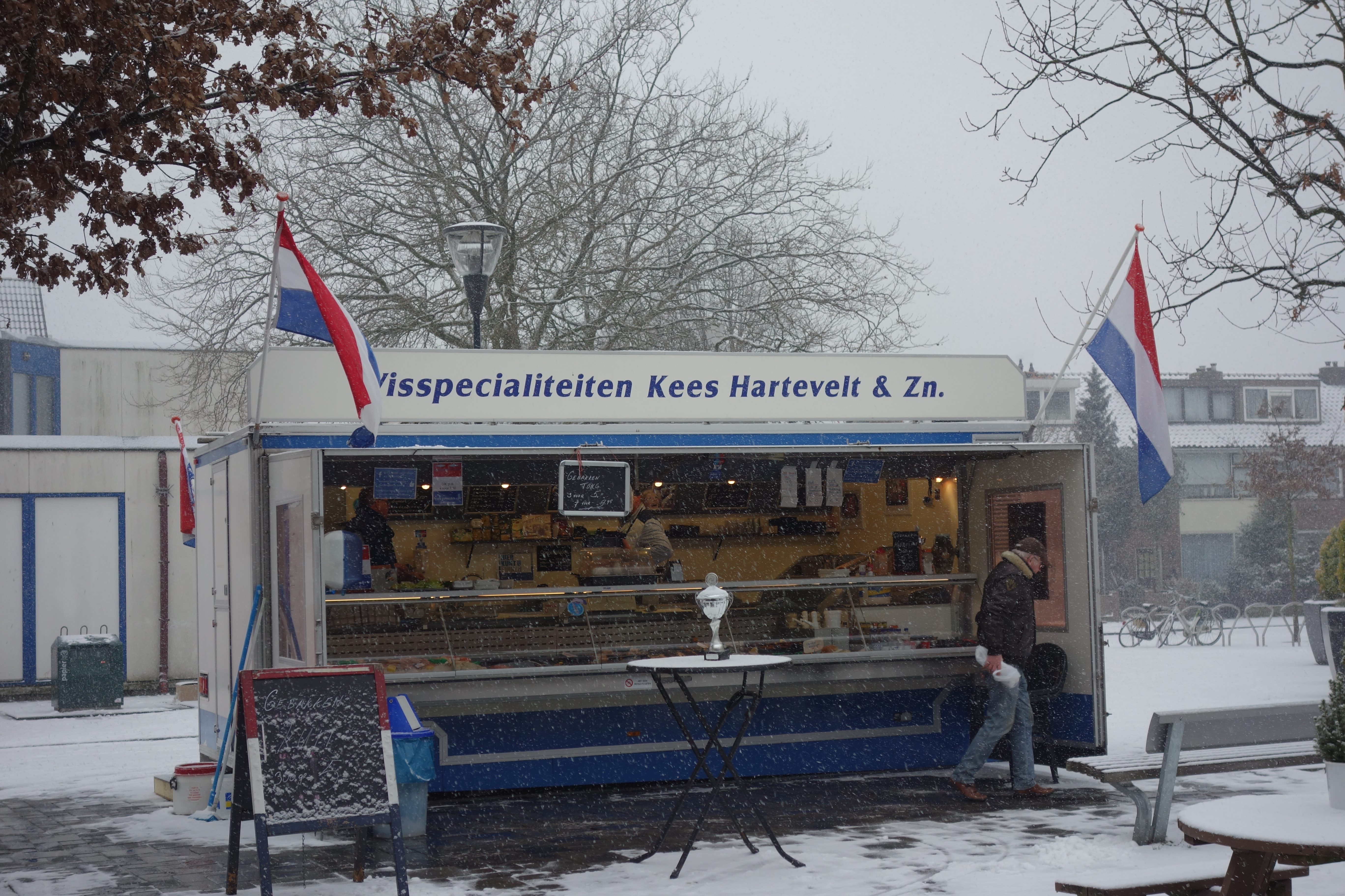 Mobile fish shop, Diamantplein, Leiden (the Netherlands) in the snow (Febr. 2017)